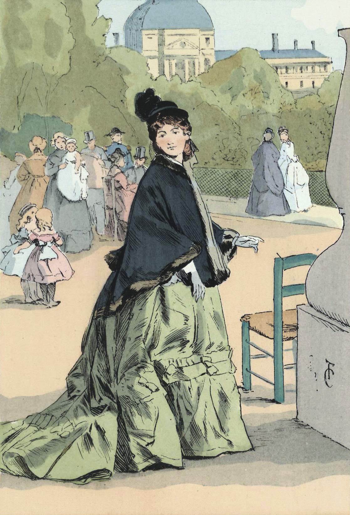 The woman depicted in this plate is wearing a green dress with a train, adorned with ribbons near the bottom. She is also wearing a dark mantelet lined with fur. She is wearing a small black hat, worn on top of the head. Abstract sources: Boucher, François. 20,000 Years of Fashion. New York: Harry N. Abrams, Inc, 1967. Ruppert, Jacques. Le Costume Français. Paris: Flammarion, 1996.